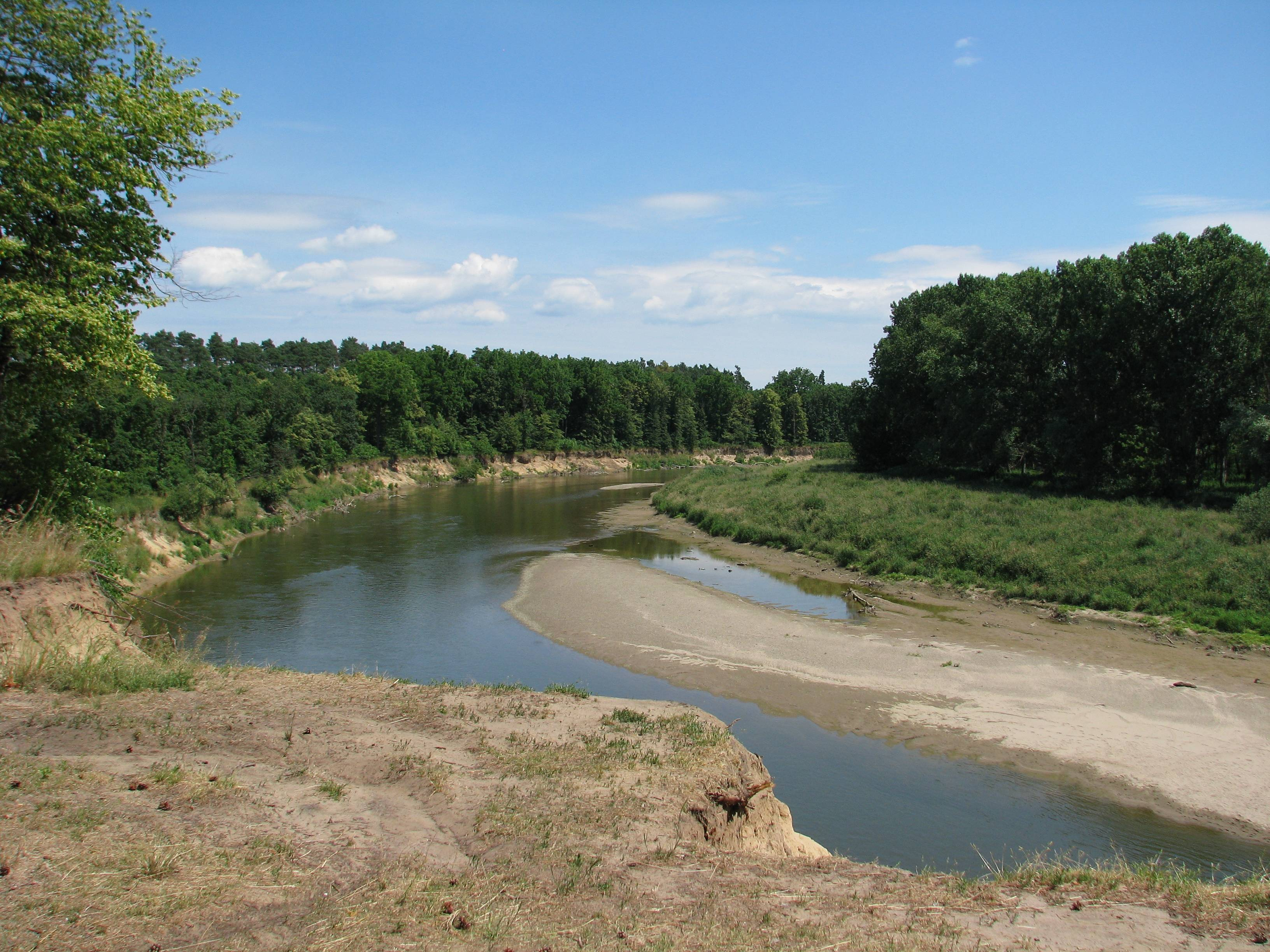 Osypané břehy - Nature Reserve